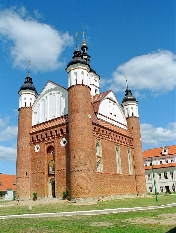 Church of the Annunciation, part of the Orthodox monastery in Supraśl, Poland from with the permission of the author. Photo from 2003.